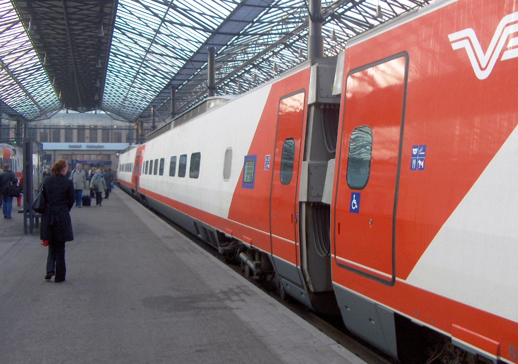 A VR Class Sm3 Pendolino train at the Helsinki Central railway station, Helsinki, Finland